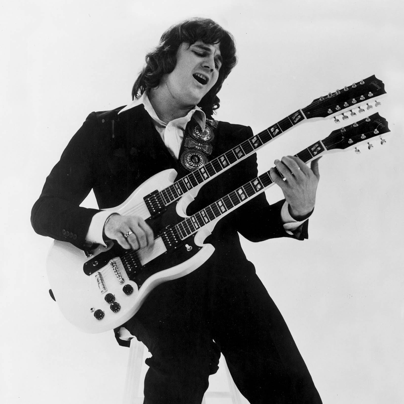 Photo of musician Steve Miller in 1977.